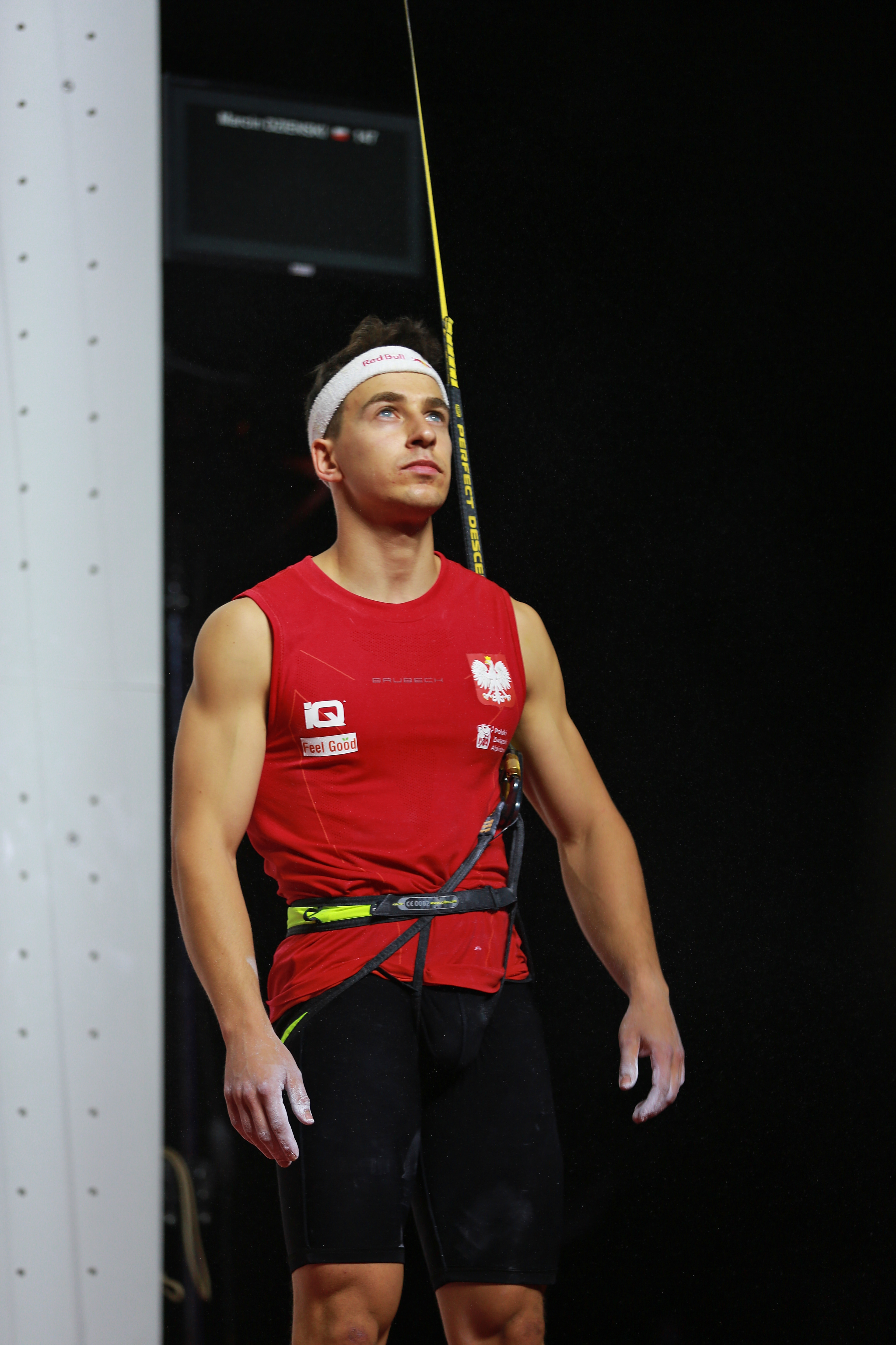 Climbing World Championships 2018 Speed Eighth-finals